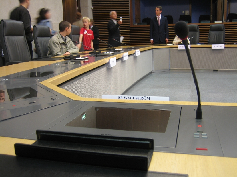 Main meeting room of the European Commission in the Berlaymont building (13th Floor) on 2007 EU open day, tourists trying out Commissioner's chairs. View from chair of First Vice President, President's chair to left centre.